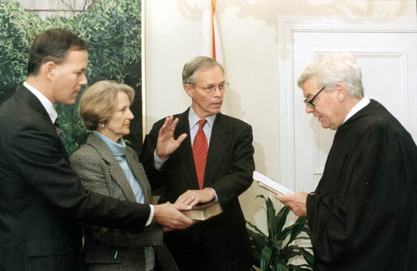 Prior to the beginning of his career in public service, Governor MacKay achieved the rank of captain in the United States Air Force from 1955-1958. Like many of his predecessors, he was initially elected to the Florida House of Representatives, in which he served Alachua and Marion counties from 1968-1974. By 1983, he was ready to walk onto the national stage, and was elected to the United States House of Representatives and served three, consecutive terms in Congress. Senator Lawton Chiles chose Buddy MacKay to run with him as his lieutenant governor in 1992, and again in 1996. Among the greatest responsibilities assigned to him during the Chiles-MacKay years was to co-chair the Florida Commission on Education Reform and Accountability. In 1998, Lt. Governor MacKay chose to run for governor himself, but was defeated by Republican candidate Jeb Bush. In the final days of 1998, Governor MacKay served the remaining three weeks of the second term of his colleague and dear friend, Governor Lawton Chiles-who died unexpectedly on December 12, 1998.